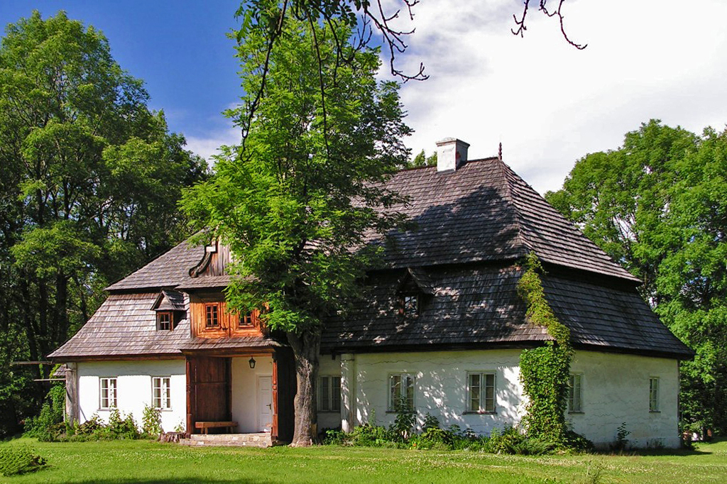 Manor House in Łopuszna, Poland.